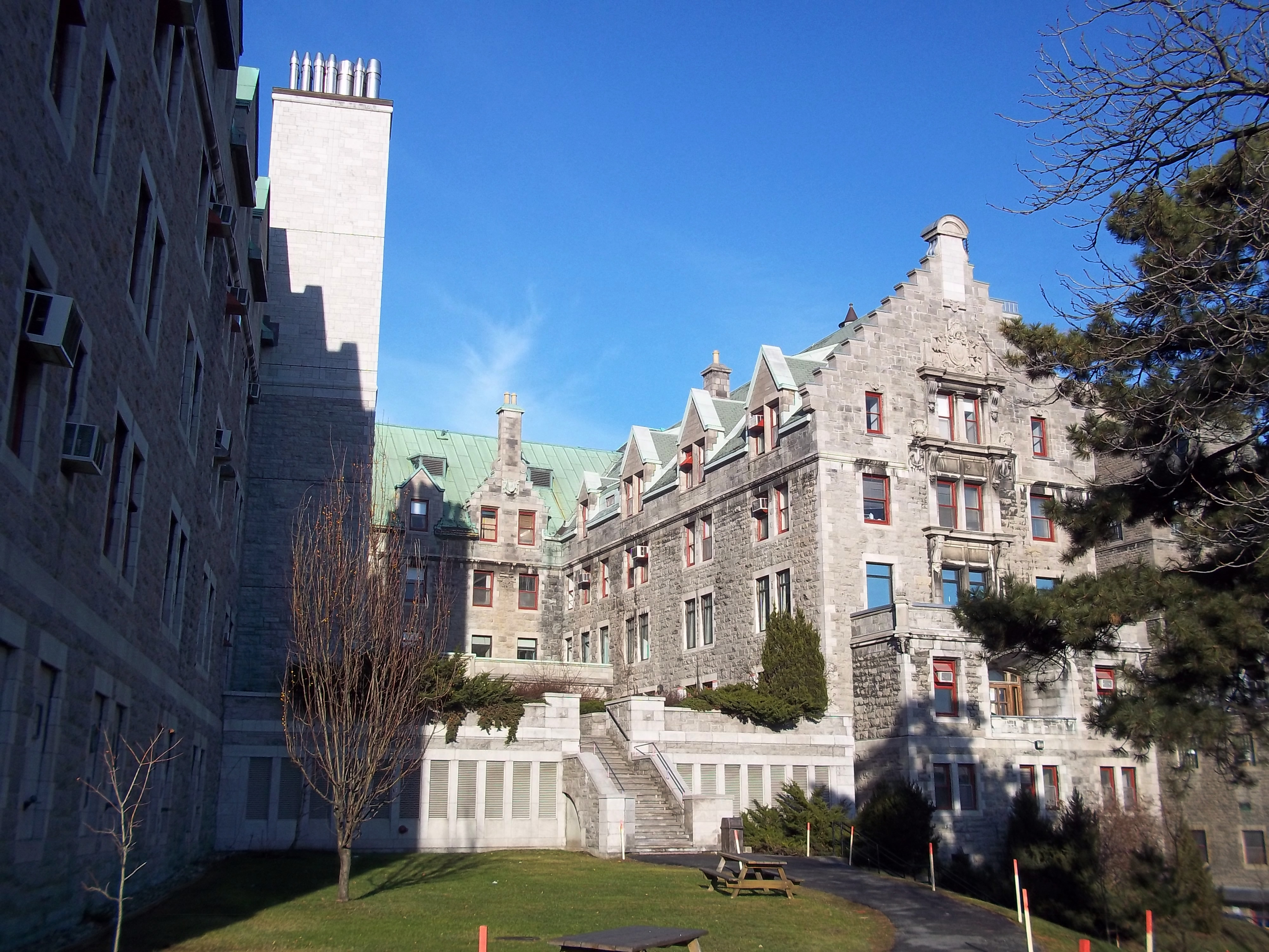 General view of the Hersey Pavilion National Historic Site of Canada, showing the location in an institutional setting as a component of the Royal Victoria Hospital in Montréal.